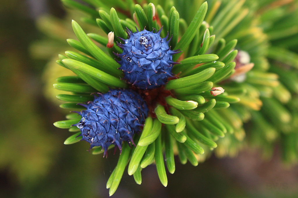 Bryce Canyon National Park, Utah, USA, bristlecone pine cones